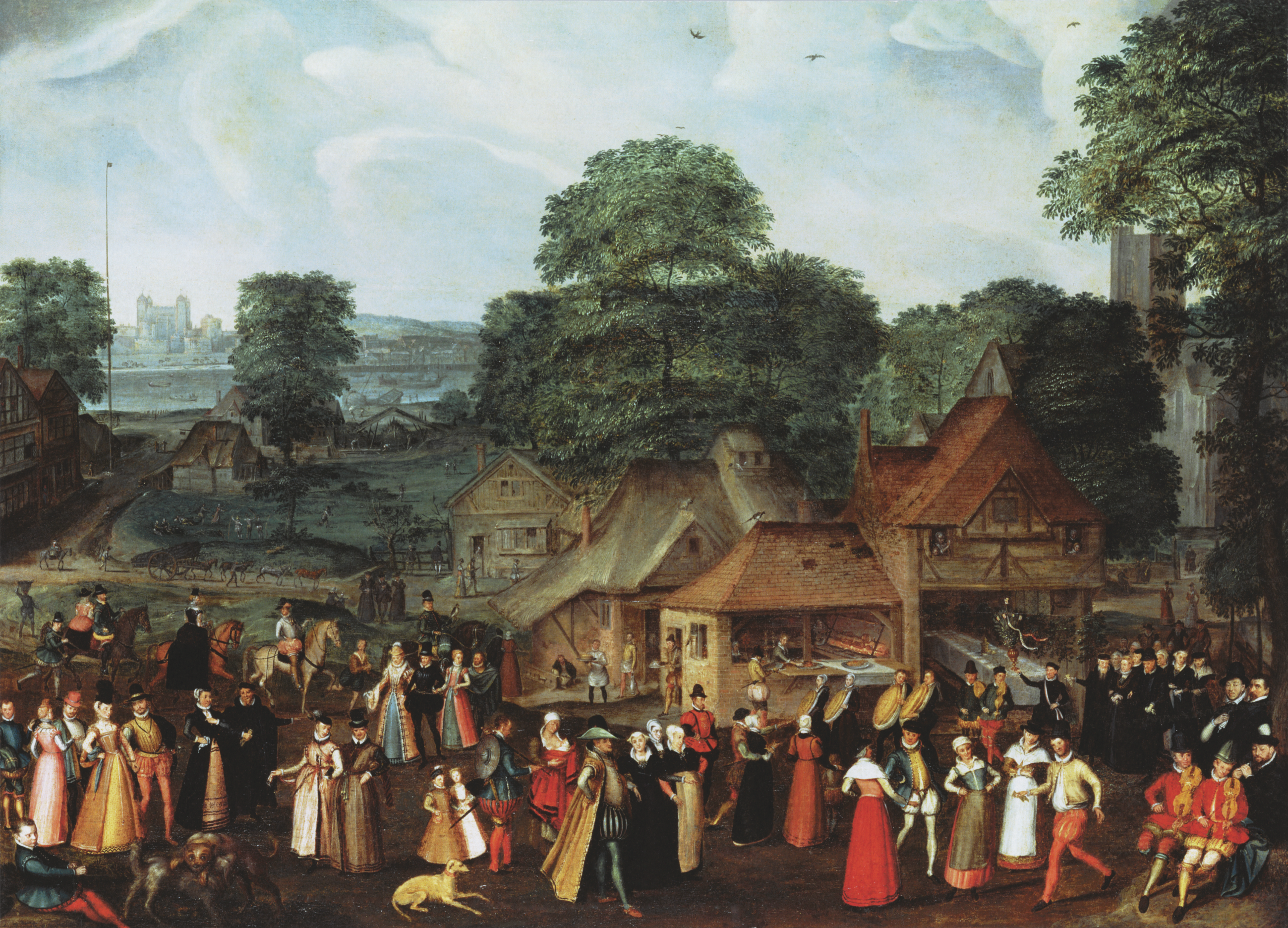 This painting illustrates a panorama of society in the reign of Elizabeth I of England, who may be the lady being escorted from the church at the right.